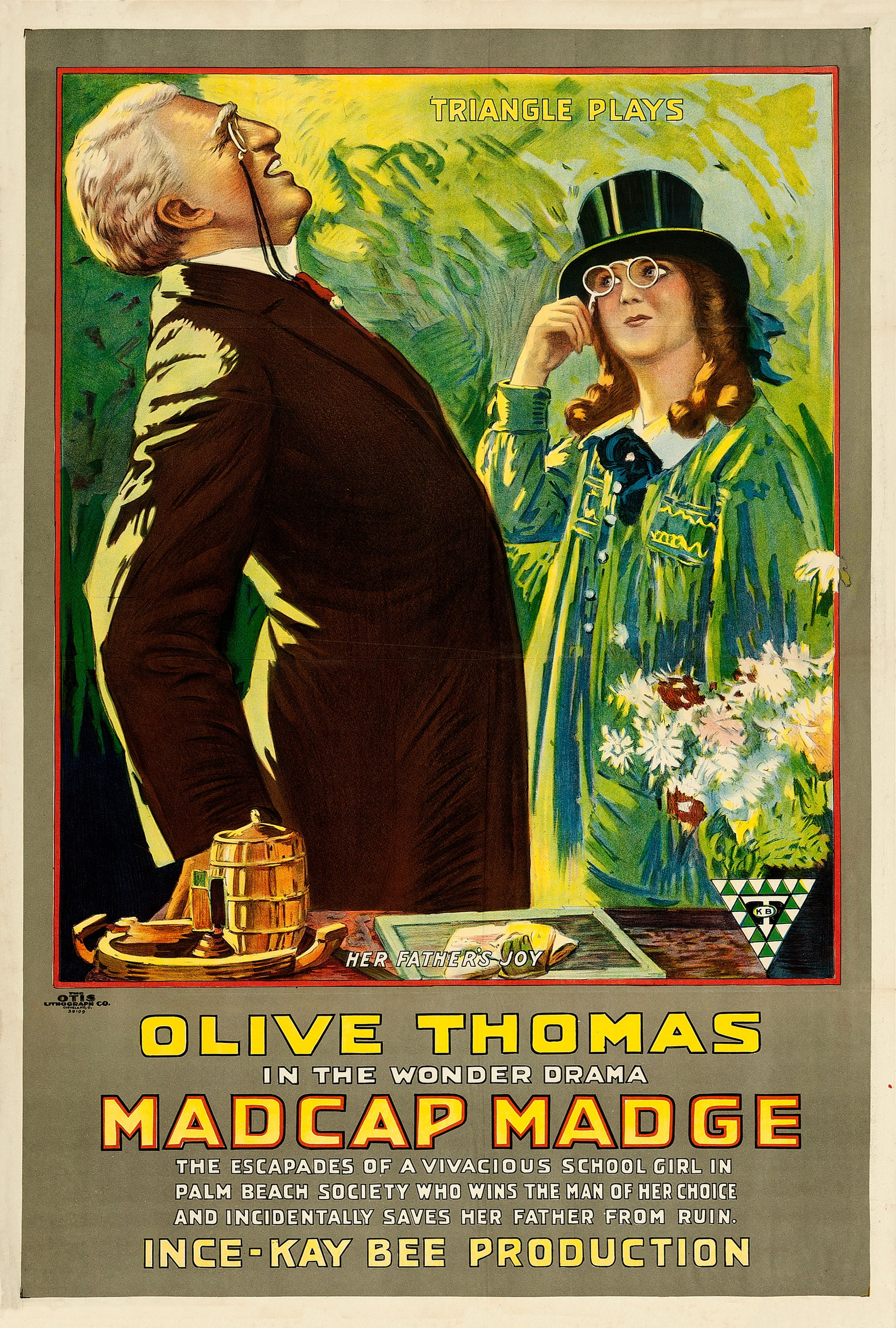 This is a poster for the 1917 American silent comedy-drama film Madcap Madge.